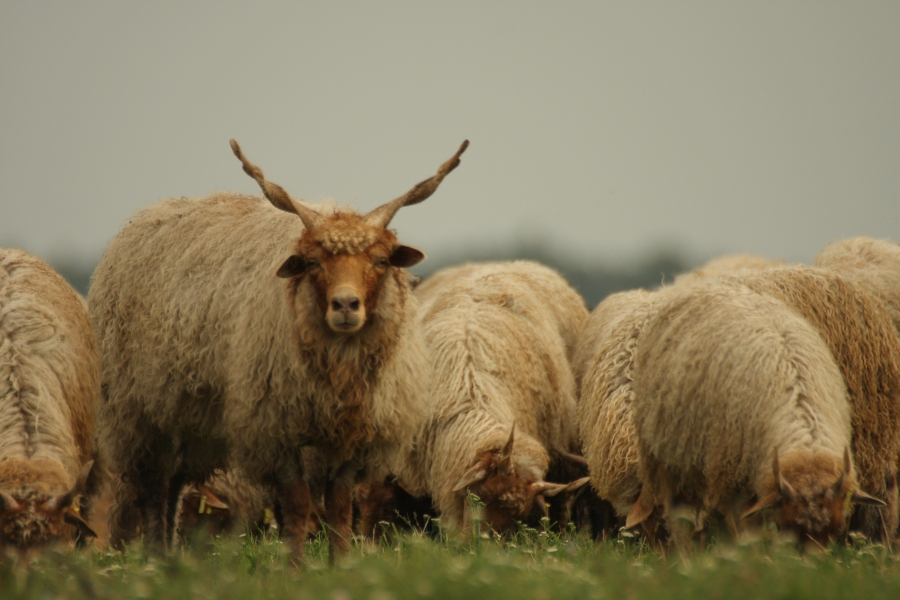 Rackas (Ovis aries strepsiceros hungaricus), Mekszikópuszta, Hungary